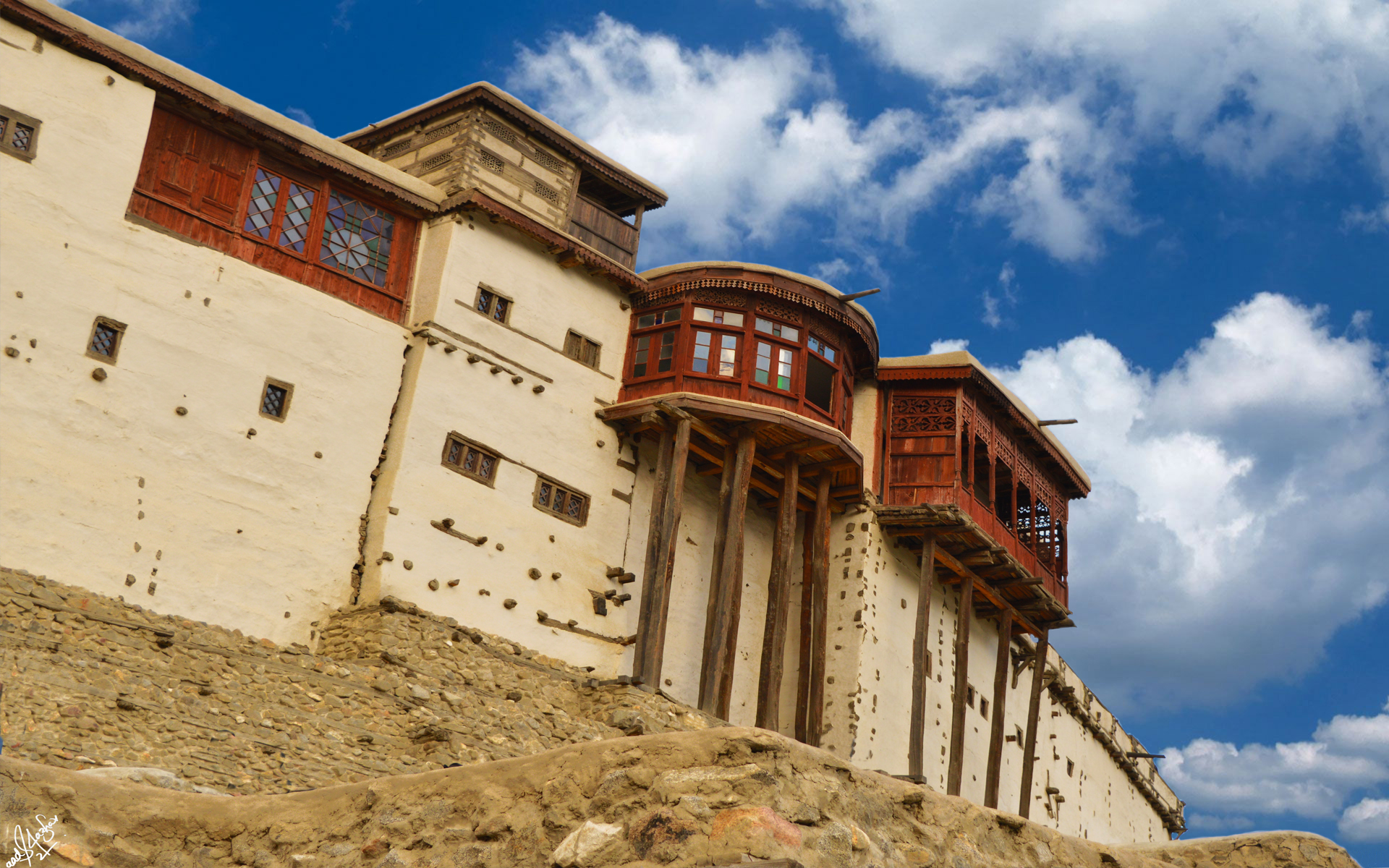 Baltit Fort, Karimabad- Hunza.